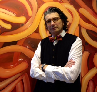 This is a portrait of Marwan Chamaa with a detail of one of his paintings.